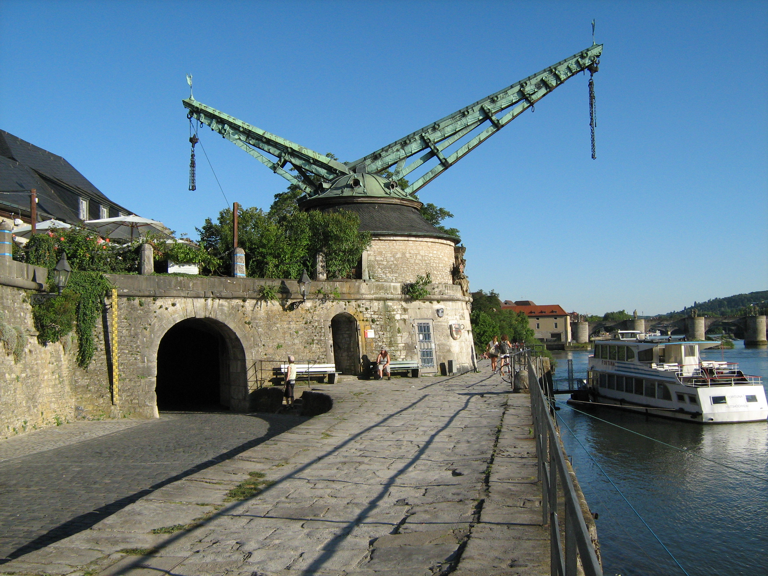 The Old Crane and the river Main in Würzburg, Bevaria. August 2007.